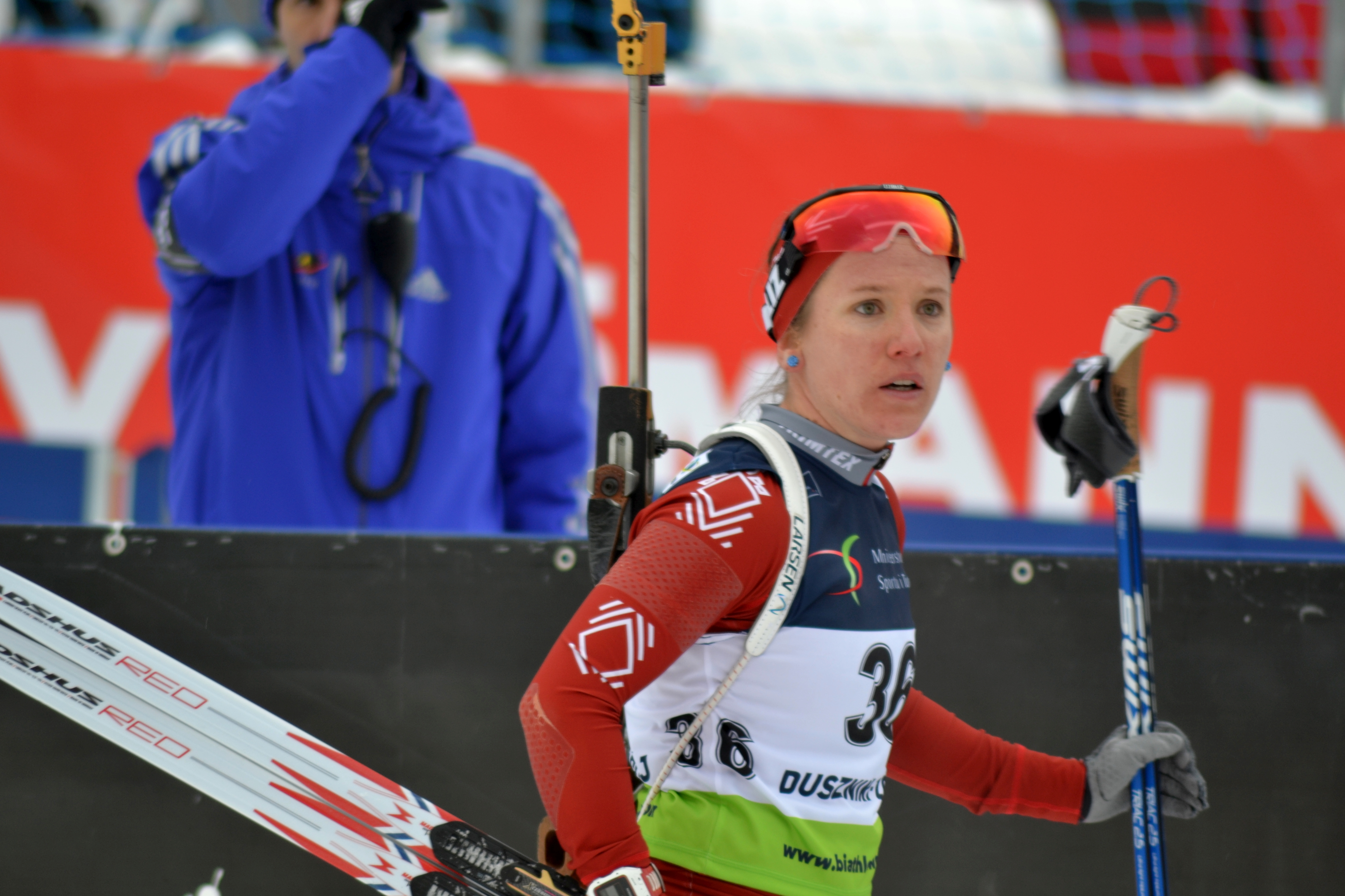 Open European Championships Biathlon 2017, Individual Women's race, held on January 25th.